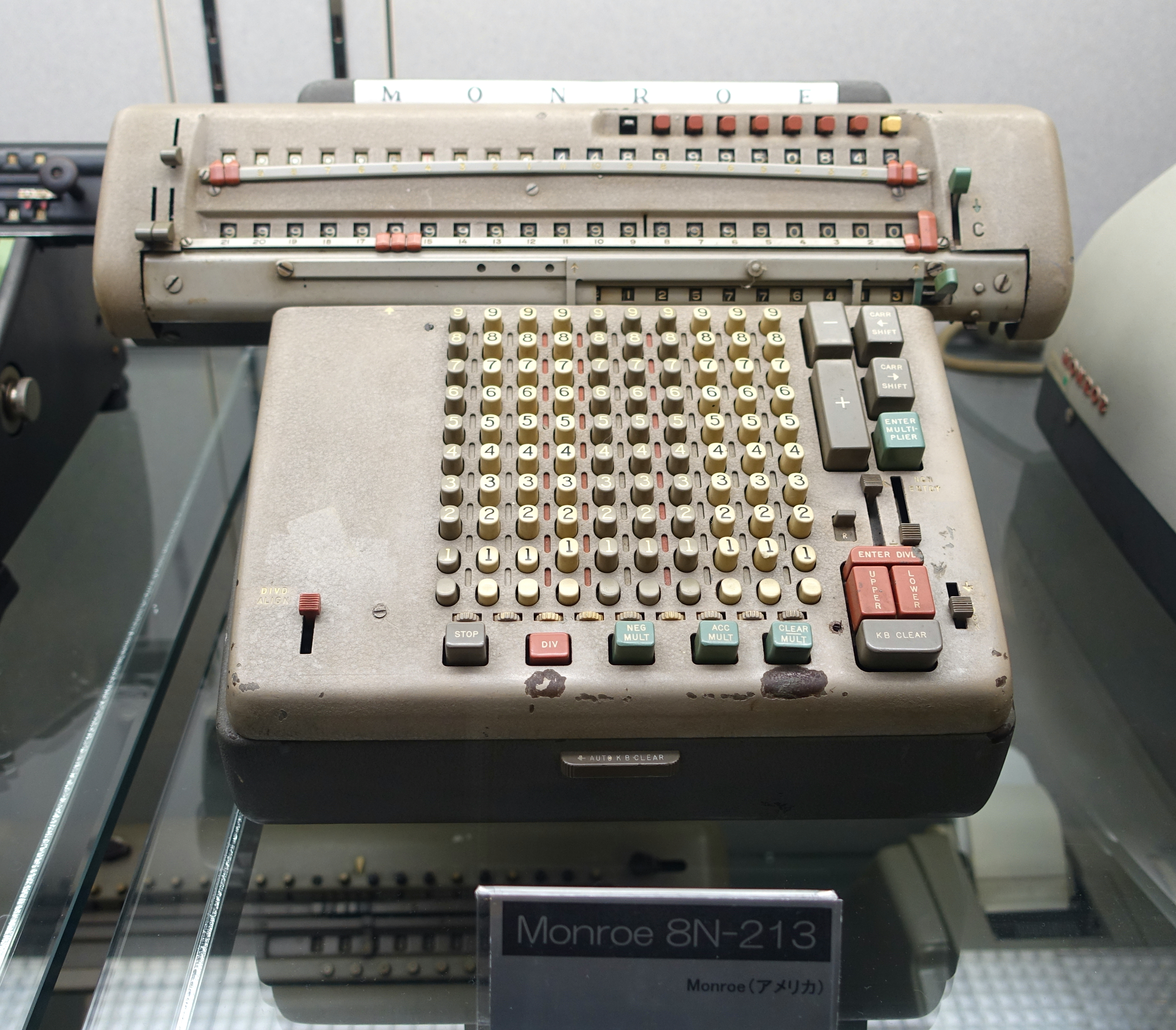 Exhibit in the Ridai Museum of Modern Science, Tokyo University of Science, Kagurazaka campus - 1-3 Kagurazaka, Shinjuku-ku, Tokyo.